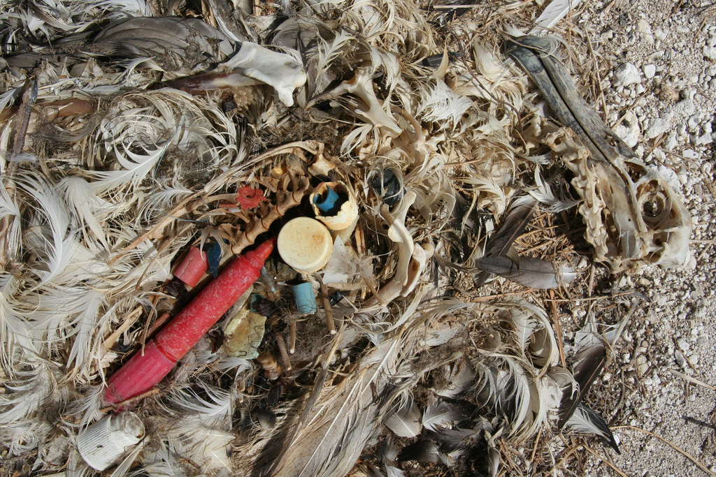 This Laysan Albatross chick has been accidentally fed plastic by its parents and died as a result.